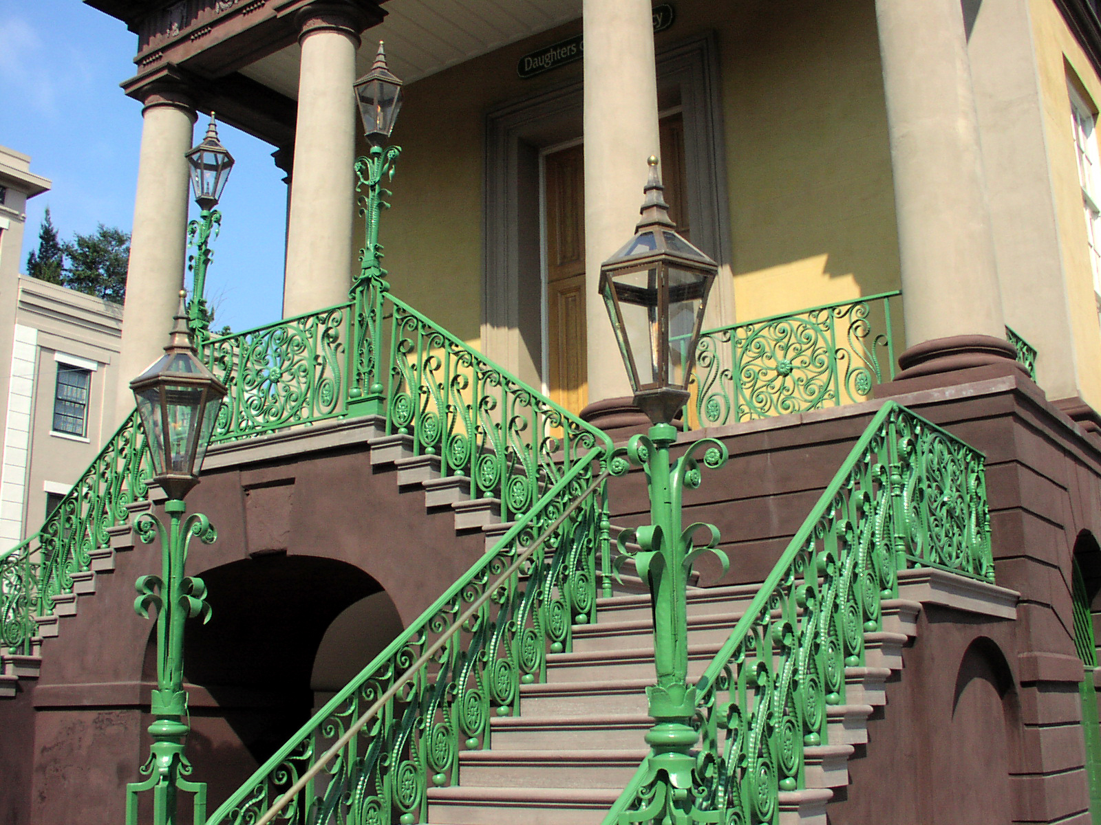 Historic Market Hall's facade with lanterns and iron balustrades - Charleston, South Carolina.